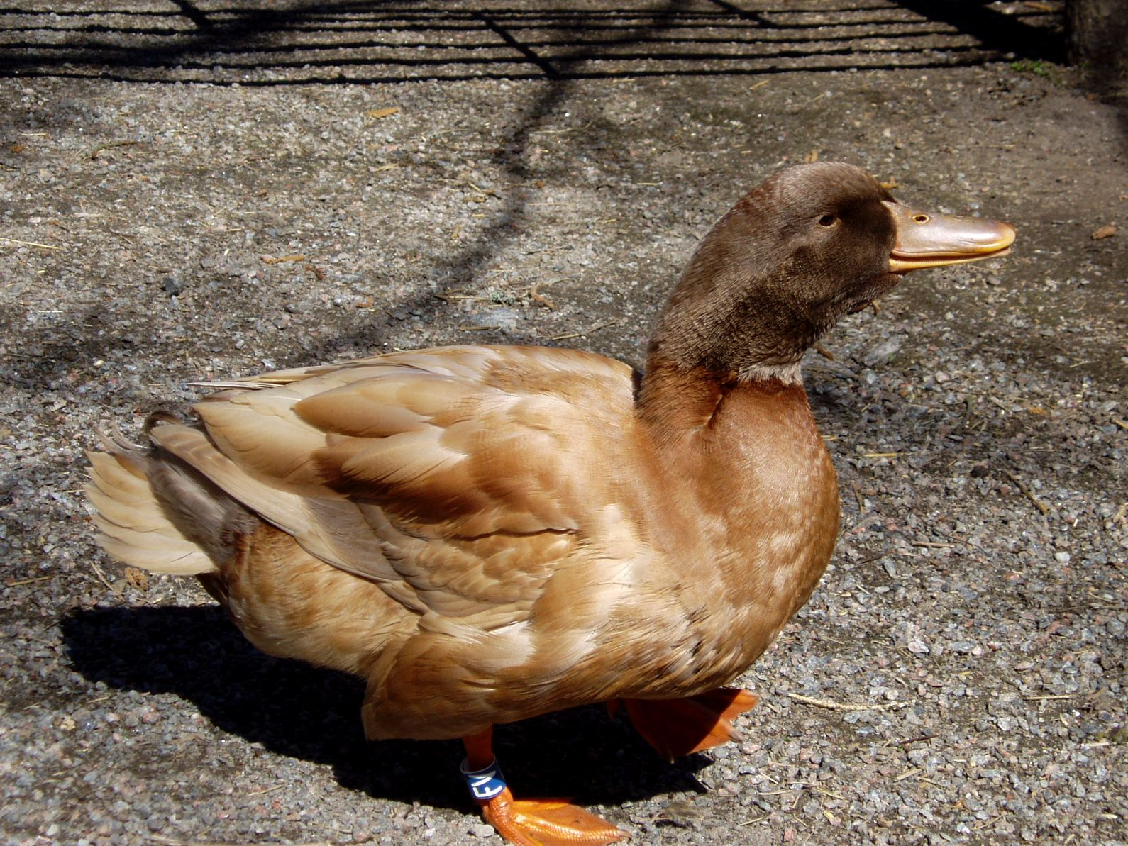 Swedish yellow duck, breed of domesticated ducks, photo taken at Skansen Stockholm